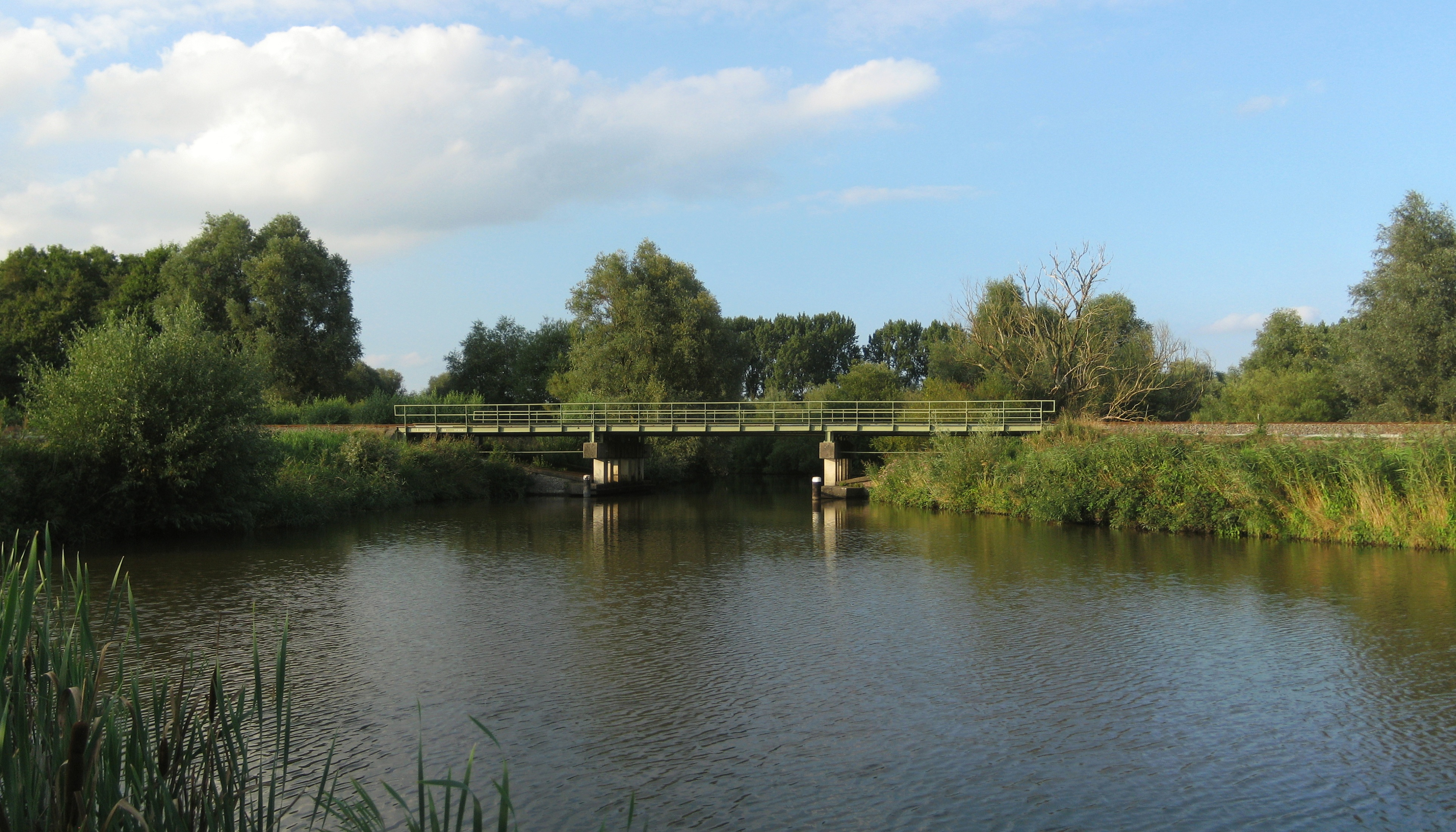 Railway bridge over the river Hunze near Waterhuizen, a village in the Dutch province of Groningen.